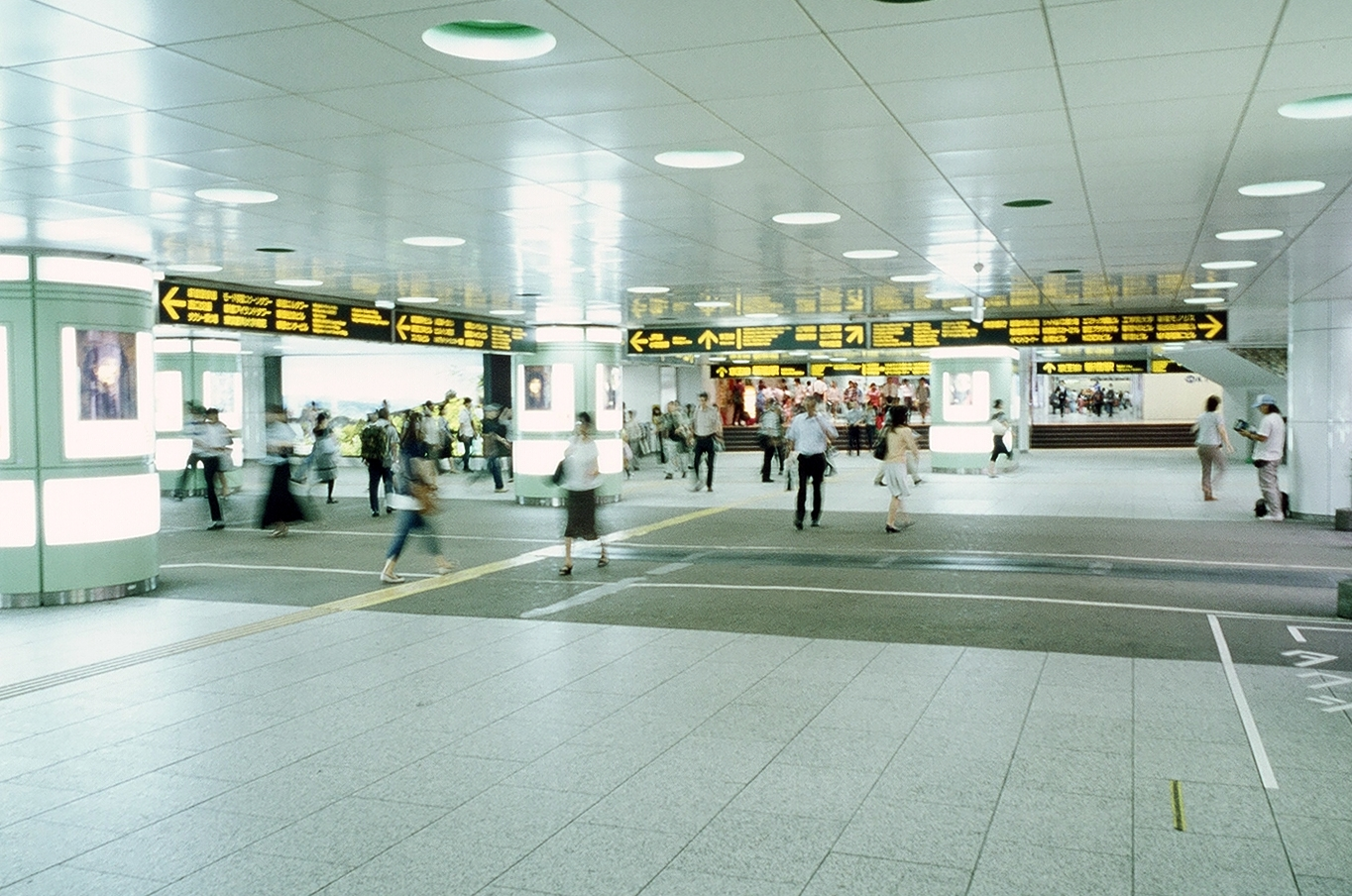 Shinjuku Station West Exit in Tokyo pref., Japan.